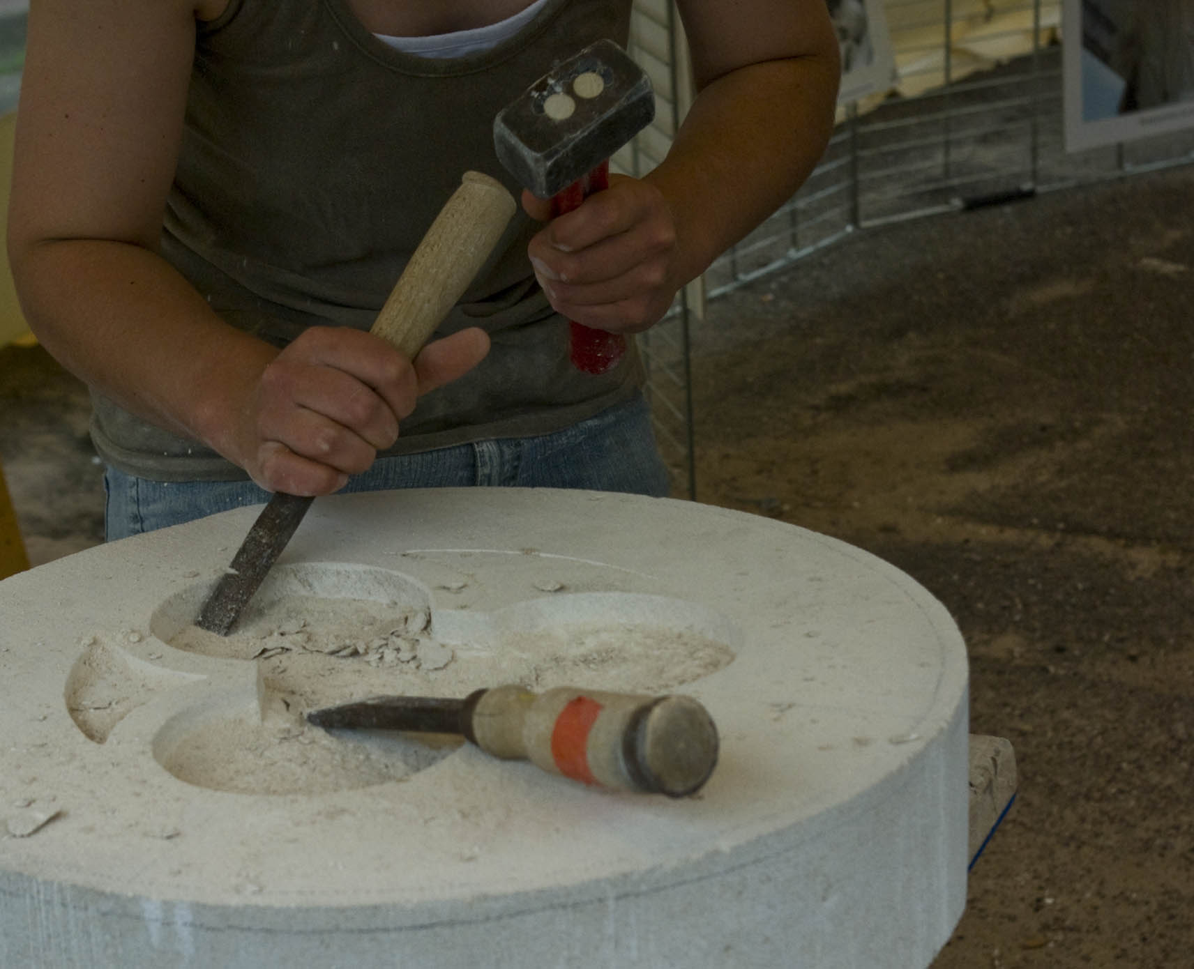 Stonemasonry